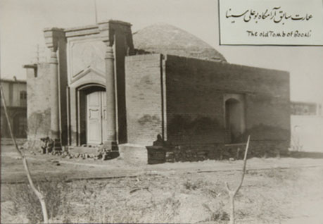 Avicenna Old Mausoleum, this photo is taken and published before 1950, the time that it is destroyed.